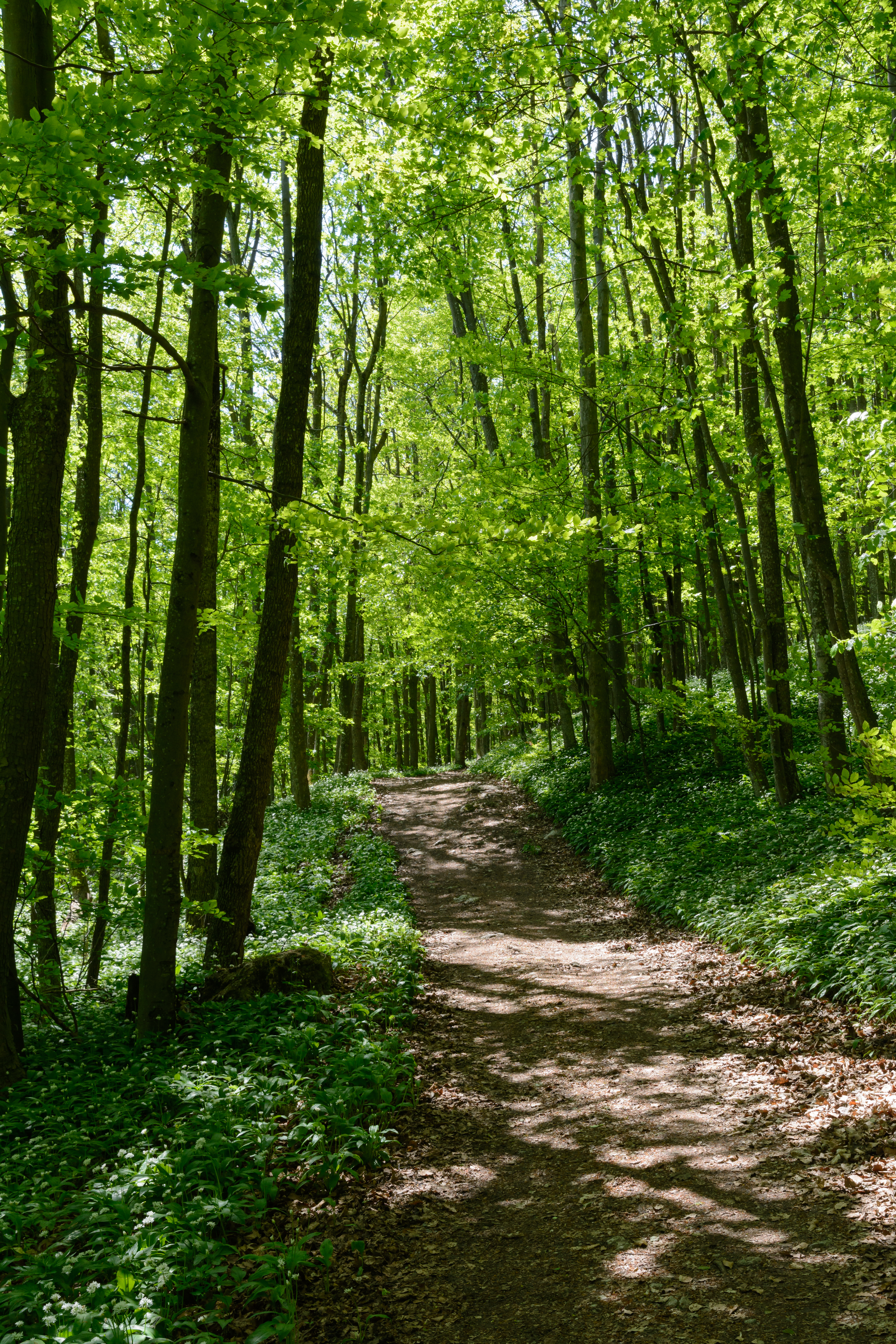 Hiking trail at Peilstein mountain, Lower Austria